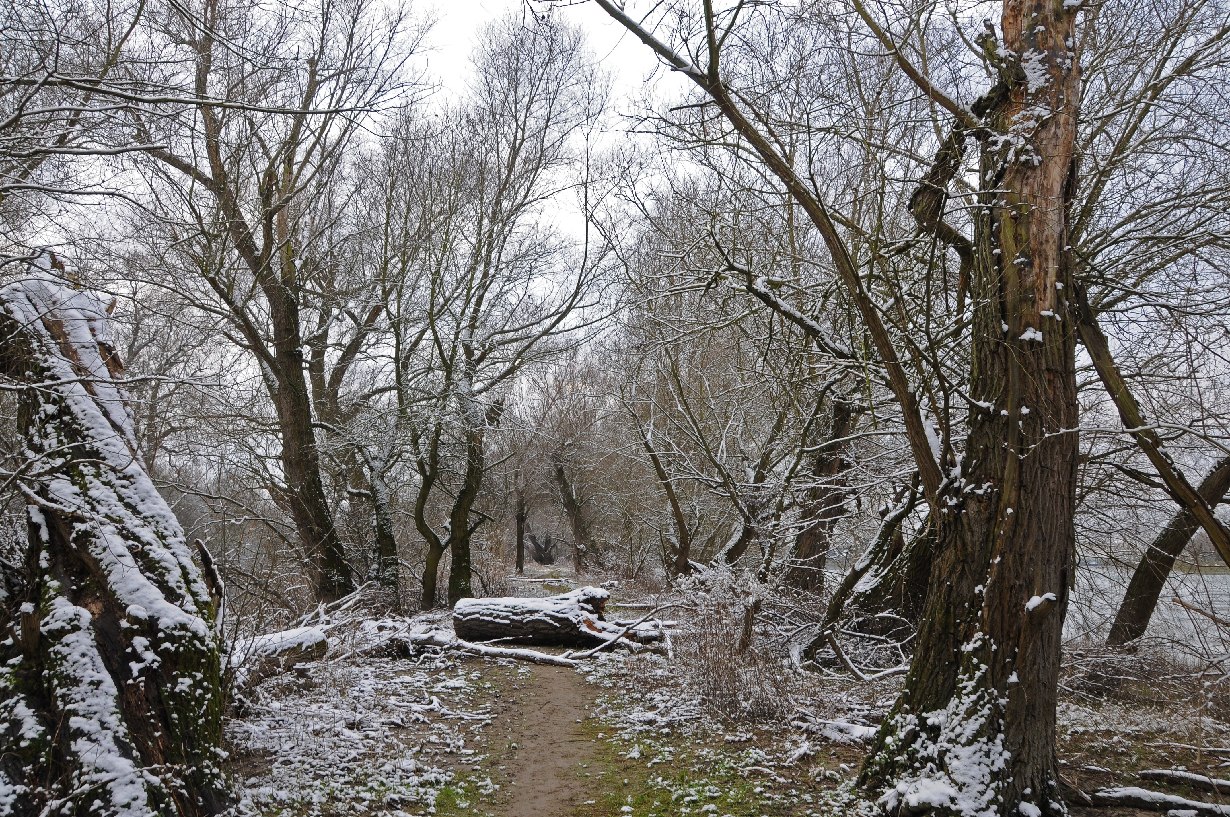 Nature reserve "Reißinsel" (Reiss island) Mannheim, Germany, trail along the Rhine in winter